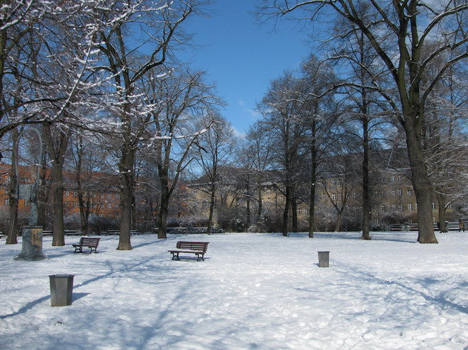 Zeppelinplatz, a public parc, in Berlin-Wedding